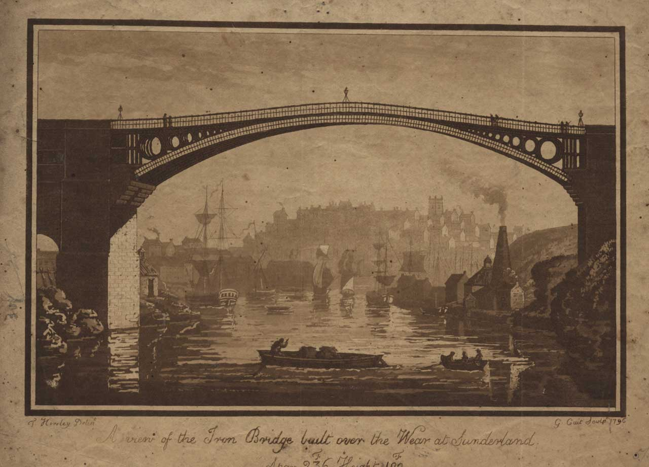 First Sunderland Bridge completed in 1796 by Thomas Paine. Painting by an unknown artist from 1796